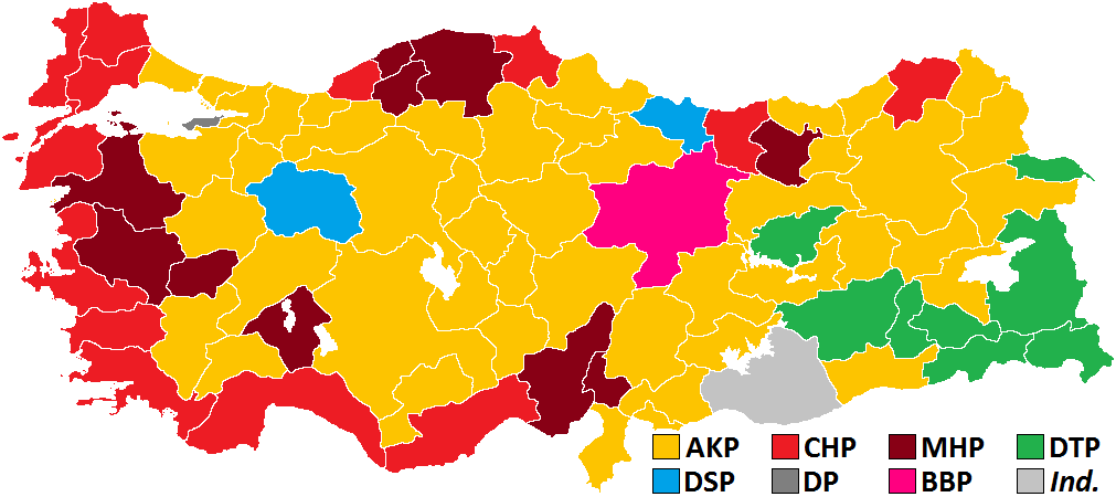 Map showing the voting intentions of the 81 provincial capitals of Turkey by party in the 2009 local elections. Original (blank) file by Atilim Gunes Baydin is here